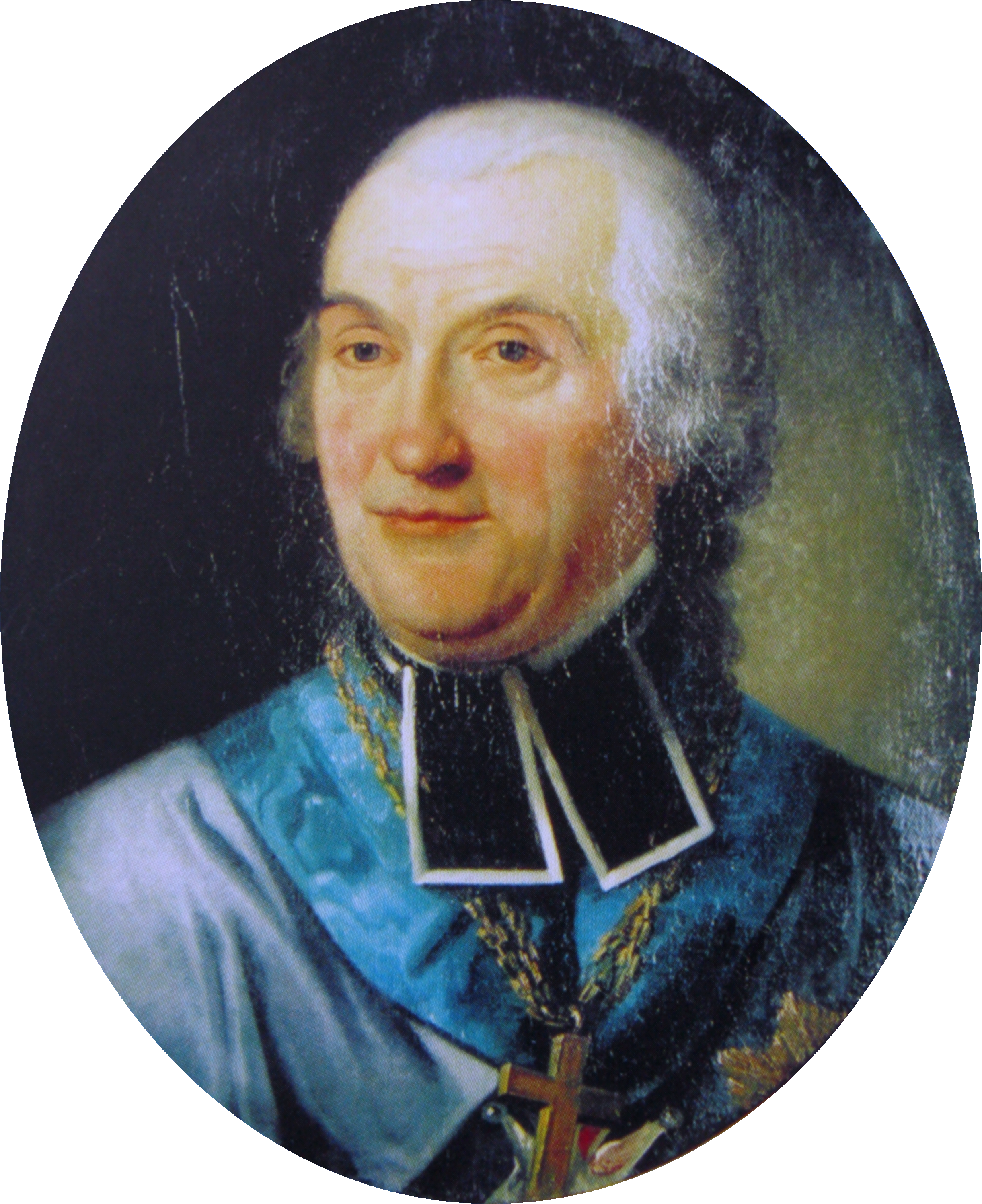 Adam Stanisław Krasiński